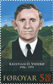 Stamps FO 601-603 of the Faroe Islands: Bibel translators Jákup Dahl, Kristian Osvald Viderø and Victor Danielsen